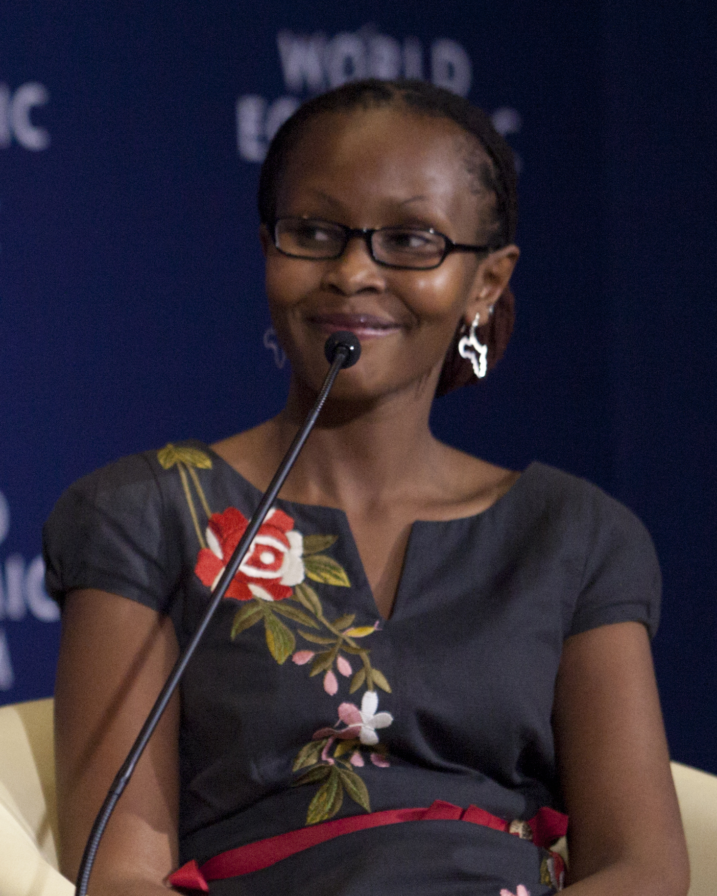 ADDIS ABABA/ETHIOPIA, 09-11 MAY 2012 - Juliana Rotich, Co-Founder and Executive Director, Ushahidi Inc., Kenya, captured during Africa's Rising Leaders at the World Economic Forum on Africa held in Addis Ababa, Ethiopia, 9-11 May, 2012.